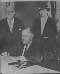 Francis Perkins looks on as Franklin Roosevelt signs the Wagner-Peyser Act on June 6, 1933. At left is Rep. Theodore A. Peyser of New York. - The caption on the source later changed to: Francis Perkins looks on as Franklin Roosevelt signs the Wagner-Peyser Bill creating the US Employment Service. June 6, 1933